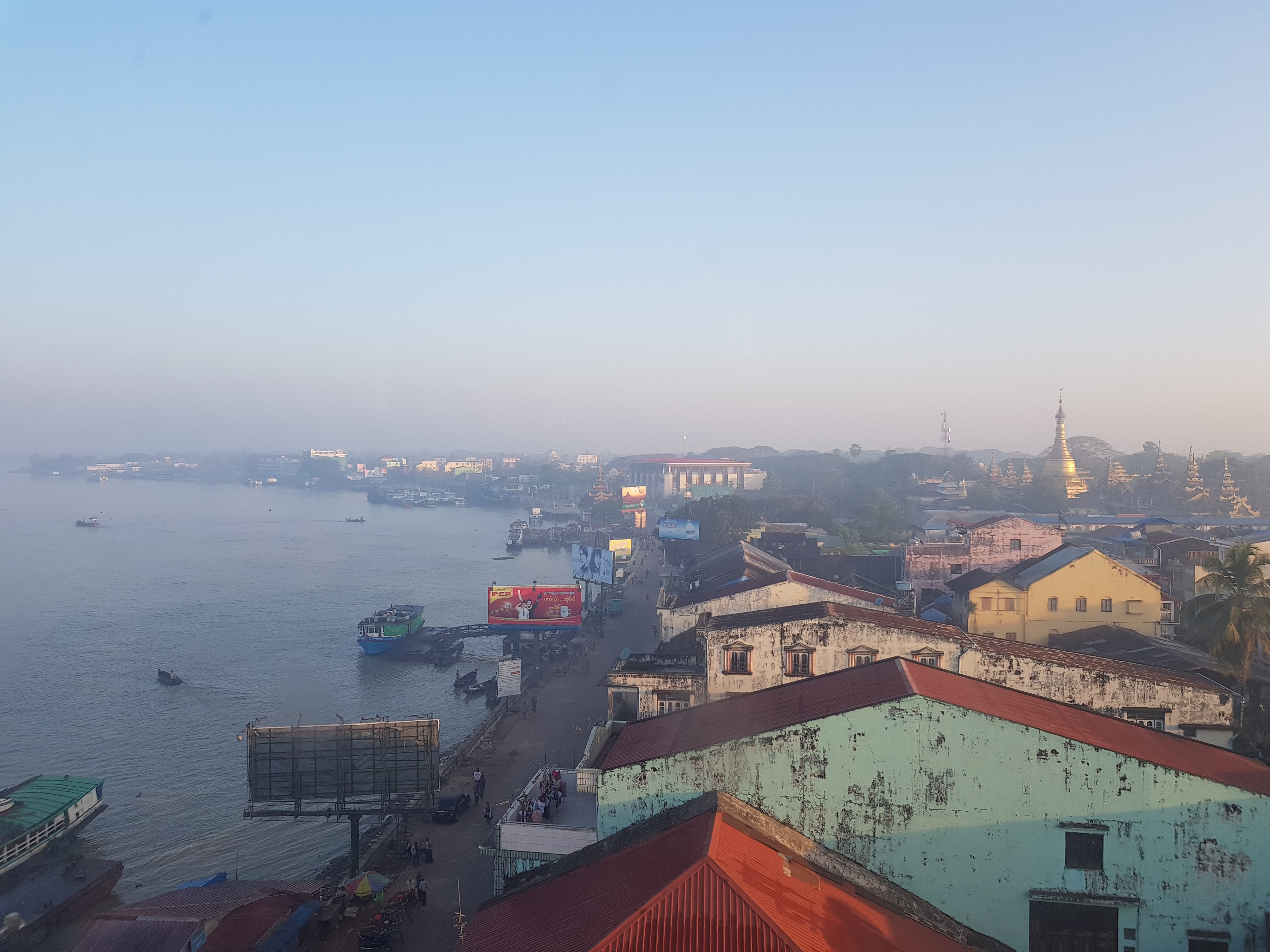 Pathein Kanner Road, Pathein City, Ayeyarwady Division, Myanmar